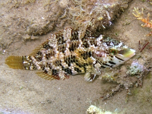 Symphodus roissali photographed near Rab island (Croatia).